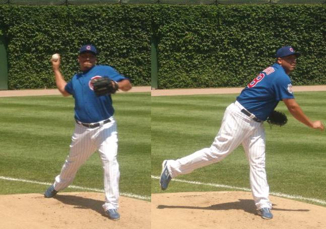 Description a typical warmup for big z Dateaugust 3 2008SourceI created this work entirely by myself.AuthorWjmummert (KA-BOOOOM!!!!)Other versions Derivative works of this file: Big Z pitch A.jpg: Big Z pitch B.jpg: use this as you wish 04:28, 15 August 2008 . . Wjmummert . . 647×456 (69 KB) a typical warmup for big z